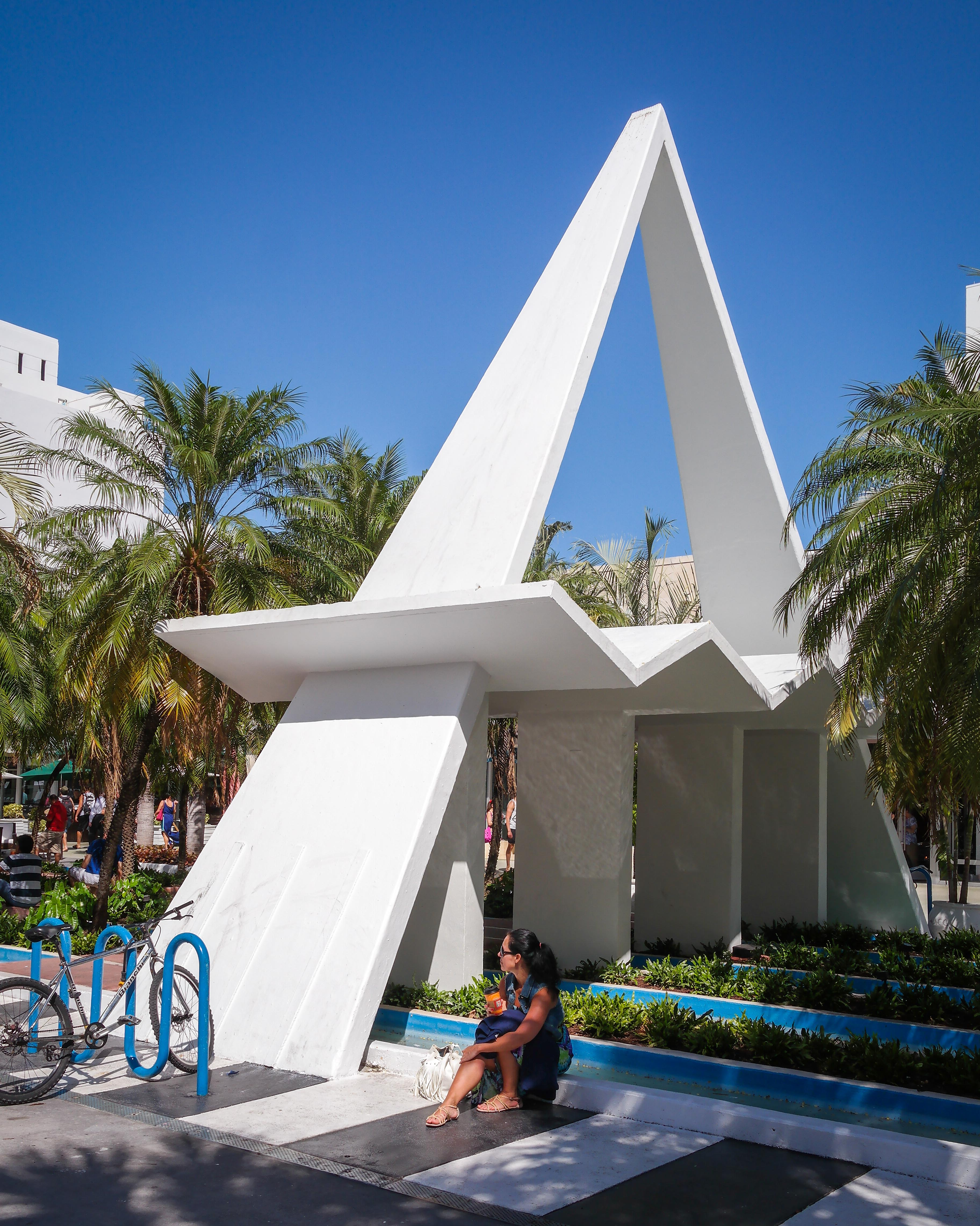 An architectural feature designed by Morris Lapidus for Lincoln Road Mall in Miami Beach, Florida